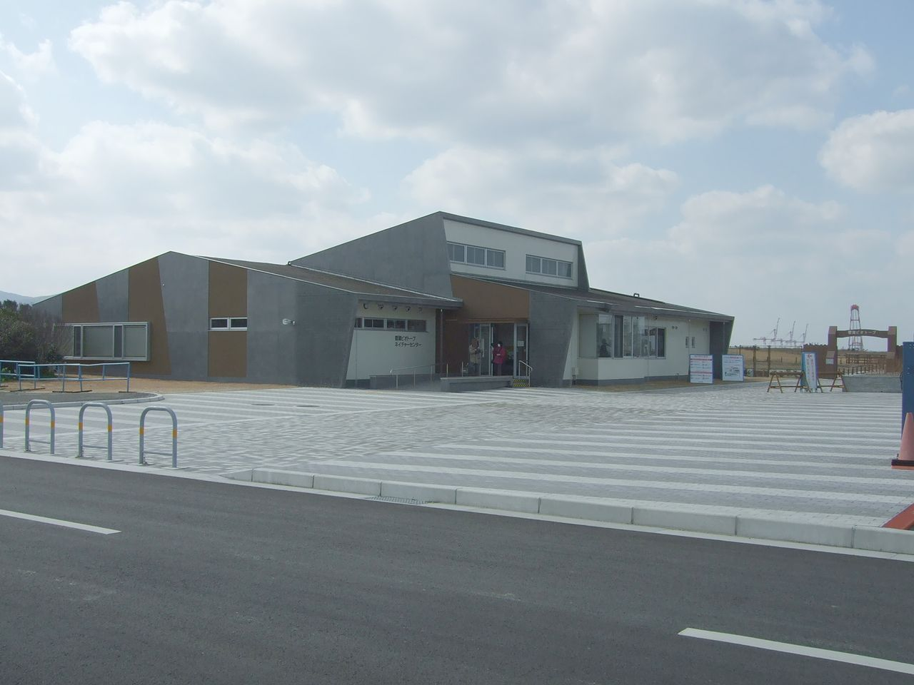 Hibikinada Biotope Nature Center, Wakamatsu Ward, Kitakyushu City, Fukuoka, Japan.